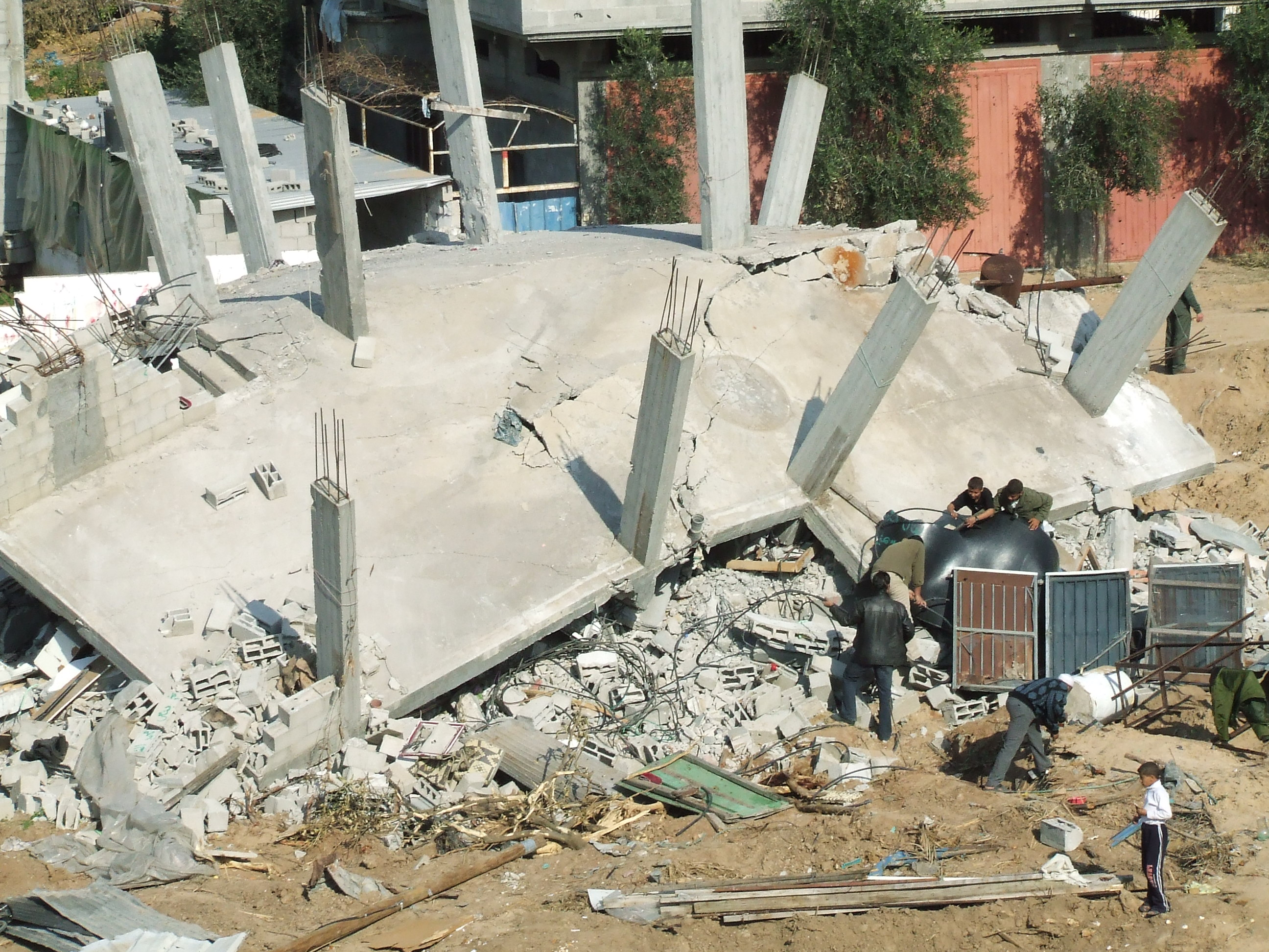 Damaged houses in Jabalia (?)